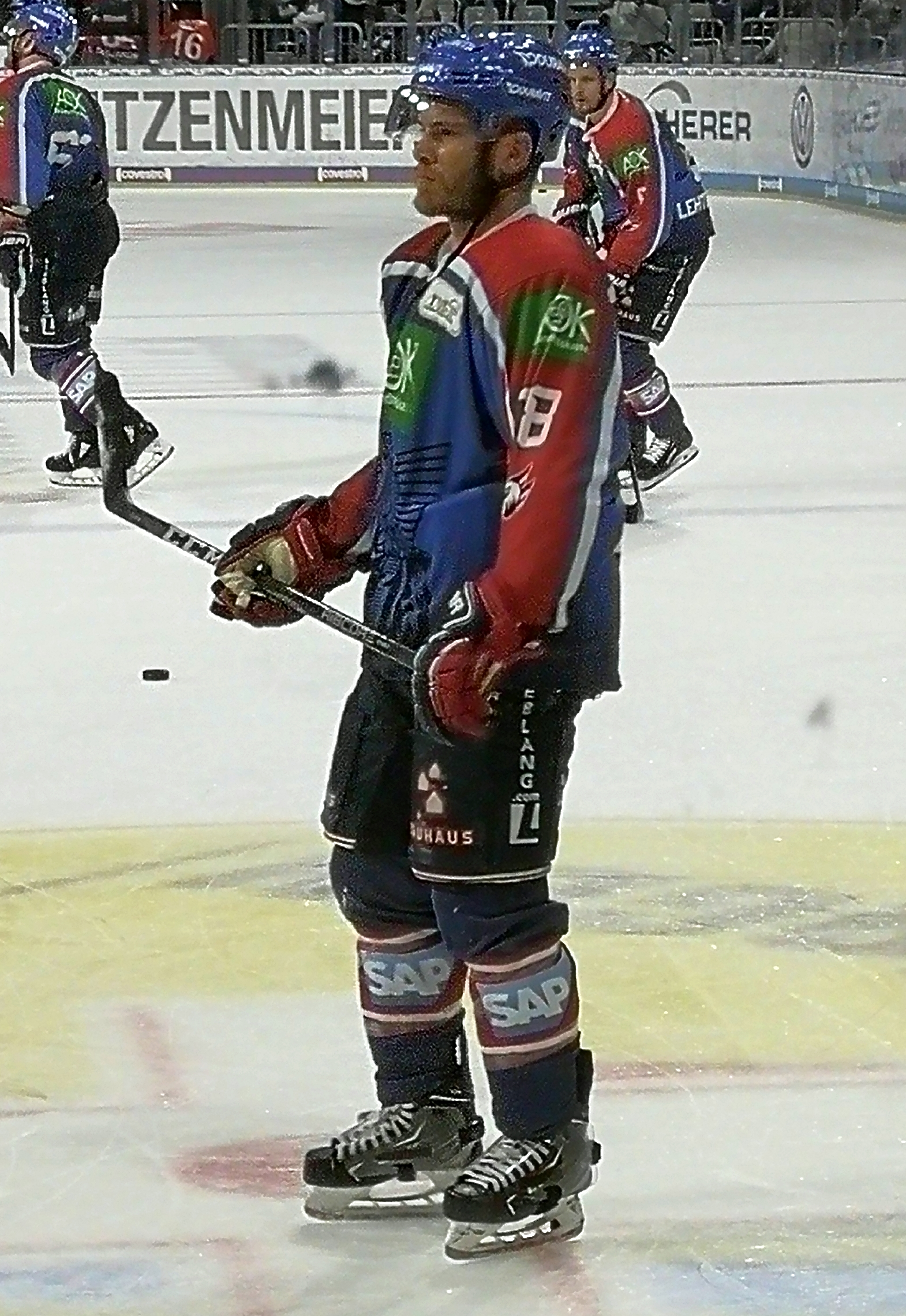 Ben Smith, ice hockey player, forward, Adler Mannheim